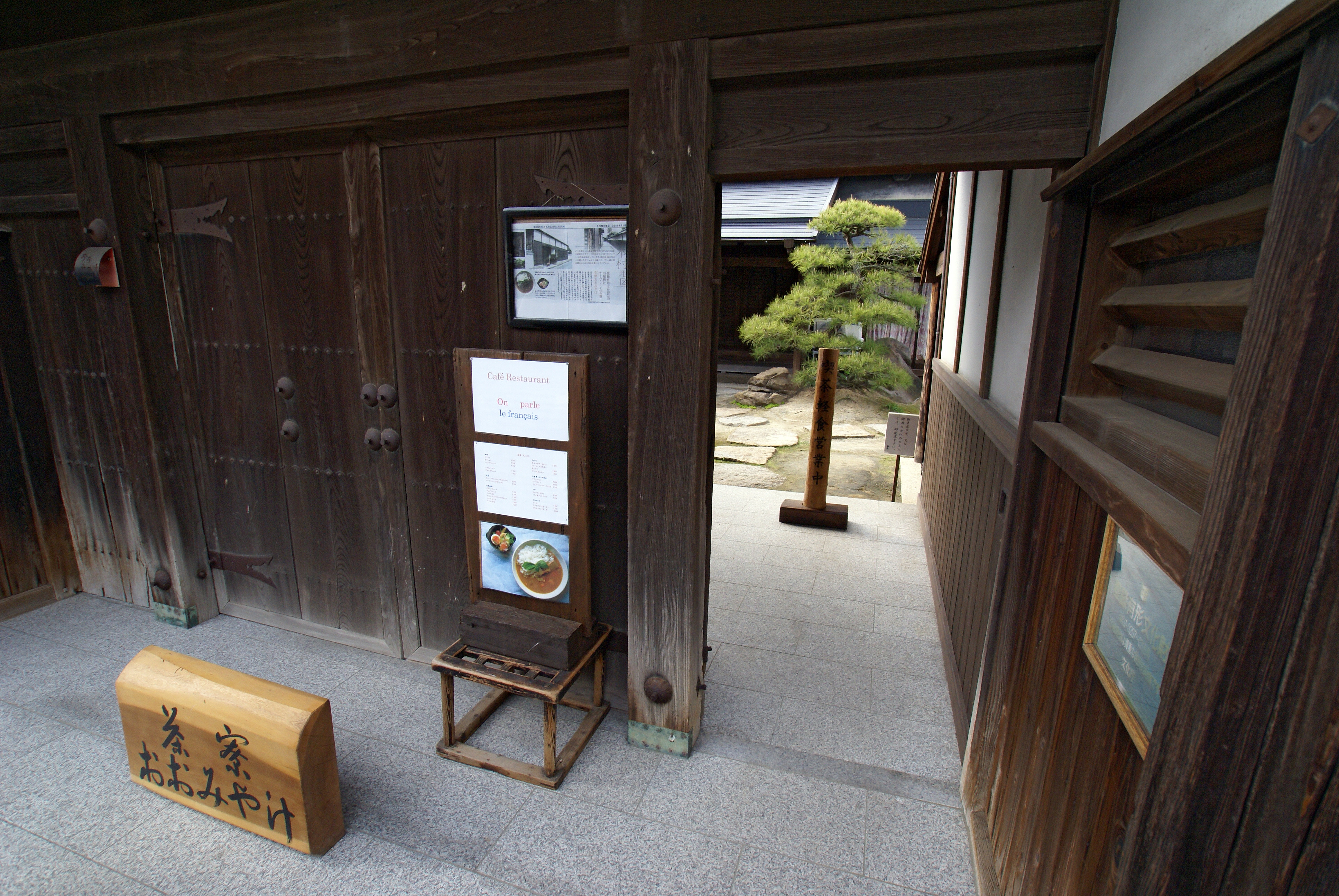 Oomiyake in Naoshima, Kagawa prefecture, Japan